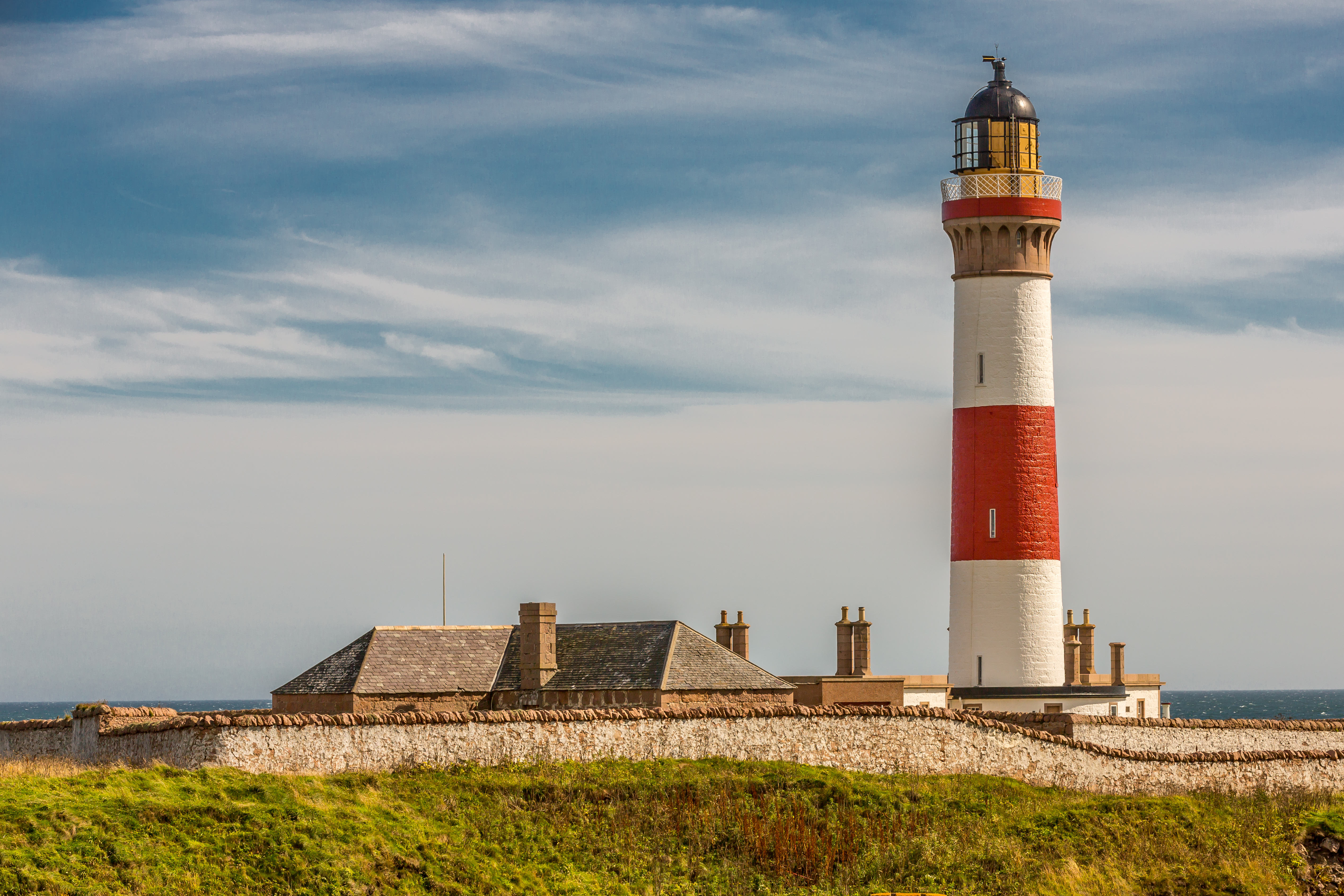 Boddam Lighthouse, the other buildings are a B&B Type: Lighthouse Type of Flashing: Flashing (Fl) Number of Flashes: 1 Light Color: White / W Interval of Flashing: 5s Focal Height: 40m Location / Area / Island: Eastern ScotlandM Operational: Yes